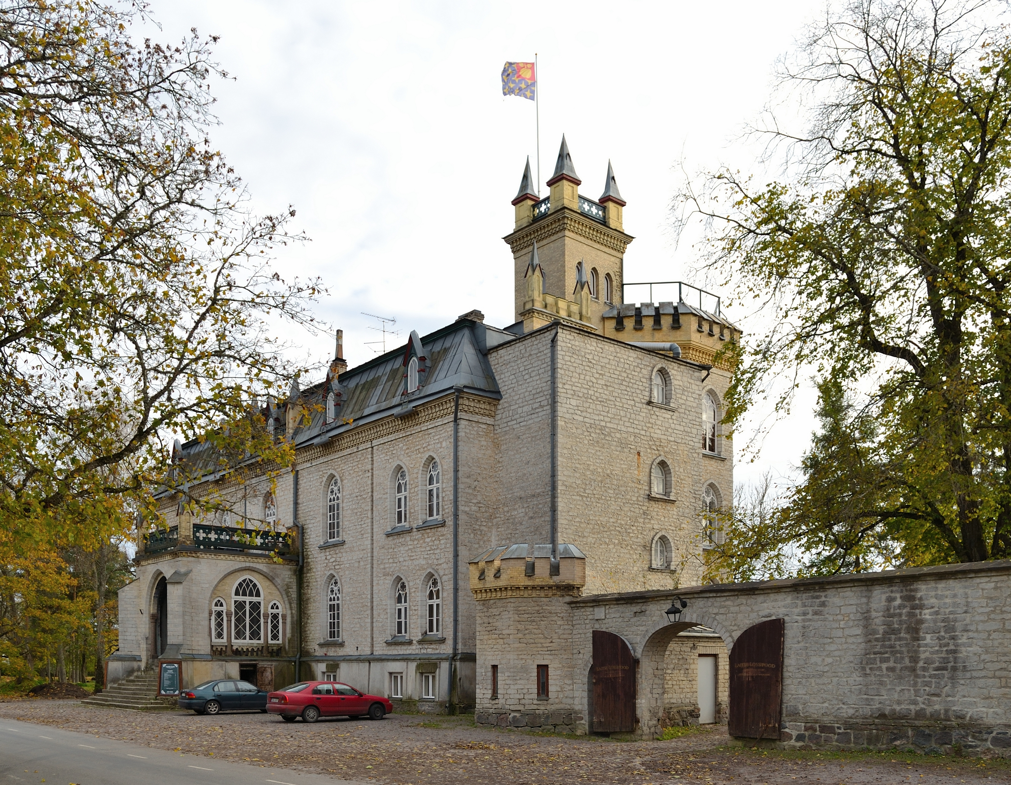 Laitse manor main building, 19. century This photograph was taken with a Nikon D3100.